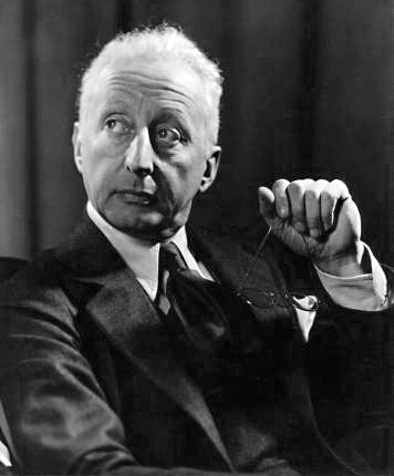 Photograph of Jerome Kern (cropped version)